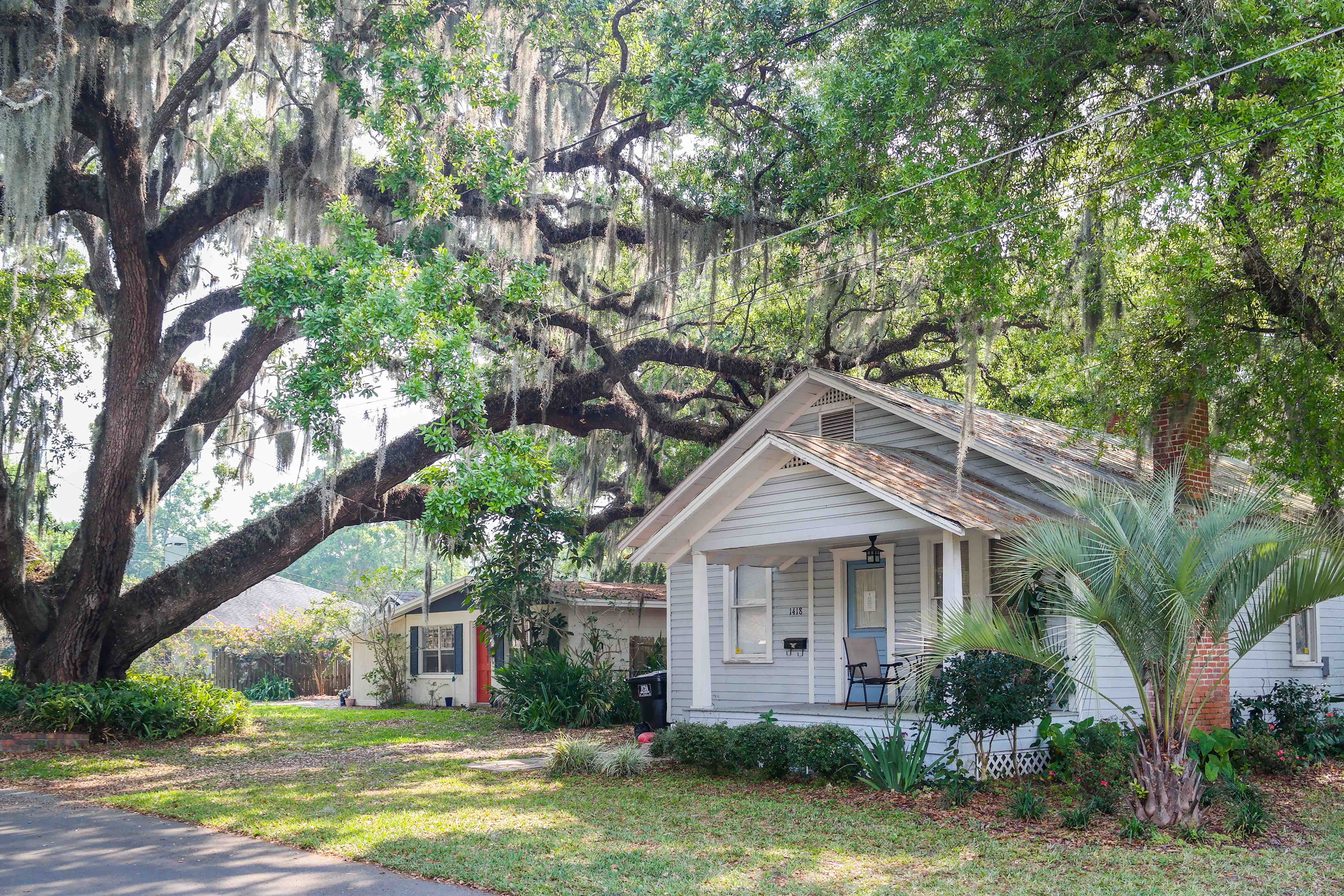 The Jack Kerouac House at 1418 Clouser Ave., Orlando, Florida